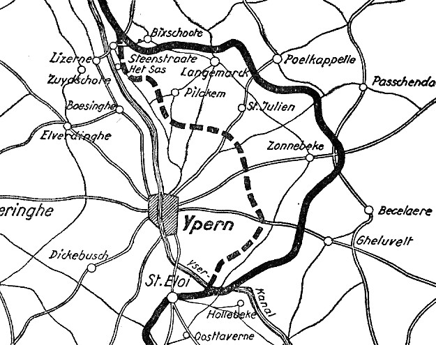 Ypres Salient